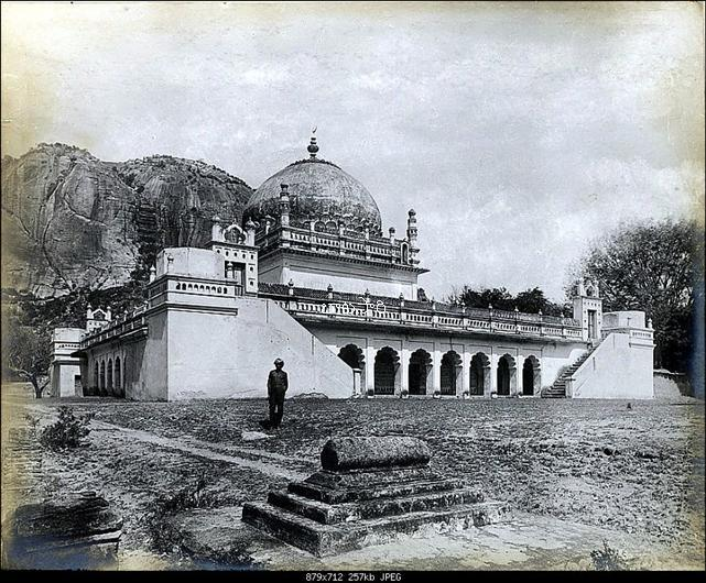 میر رضا علی خان مقبرہ گرمکنڈہ